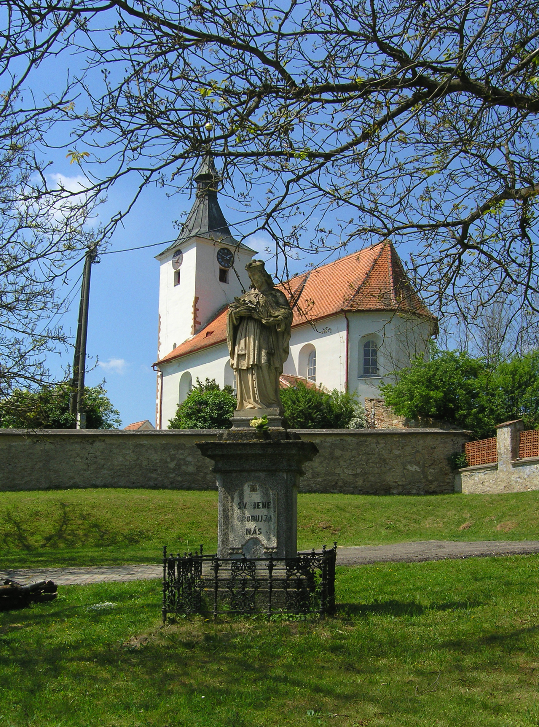 St. Martin's Church in Dolní Loučky village, Czech Republic